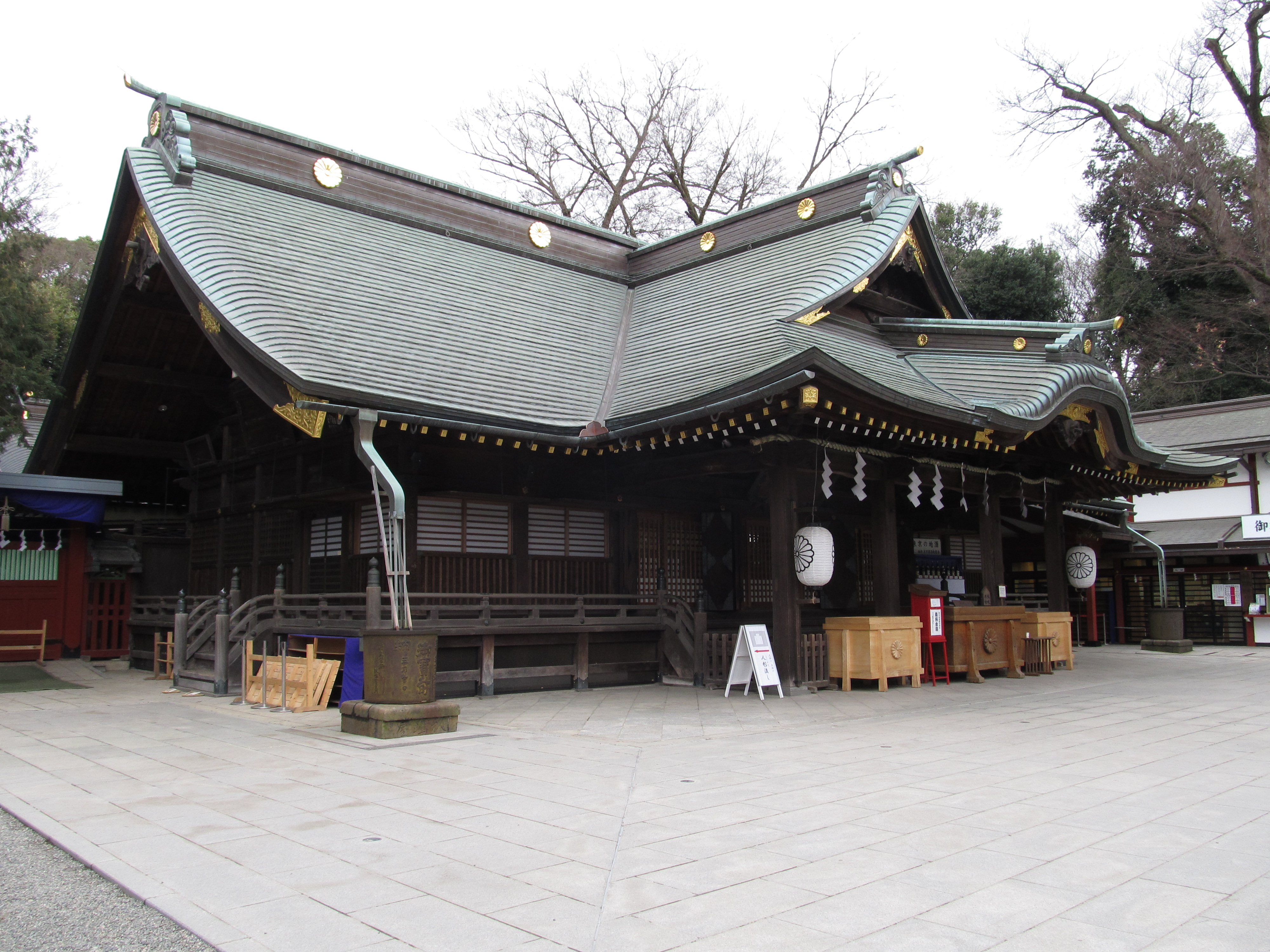 Ōkunitama Shrine. Fuchu-city, Tokyo